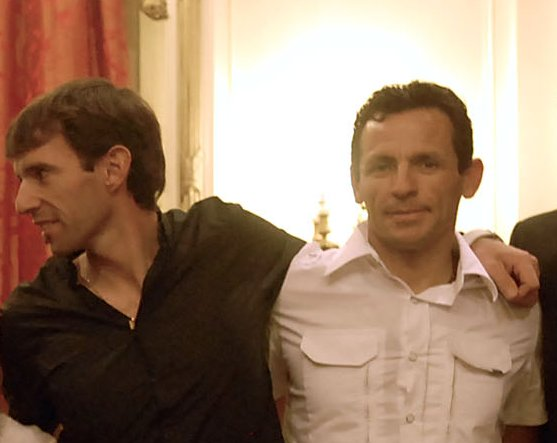 Walter Pérez & Juan Cucuchet. During the reception of Argentina President Cristina Fernández to olympic medalists in the Pink House. Fragment: full picture here